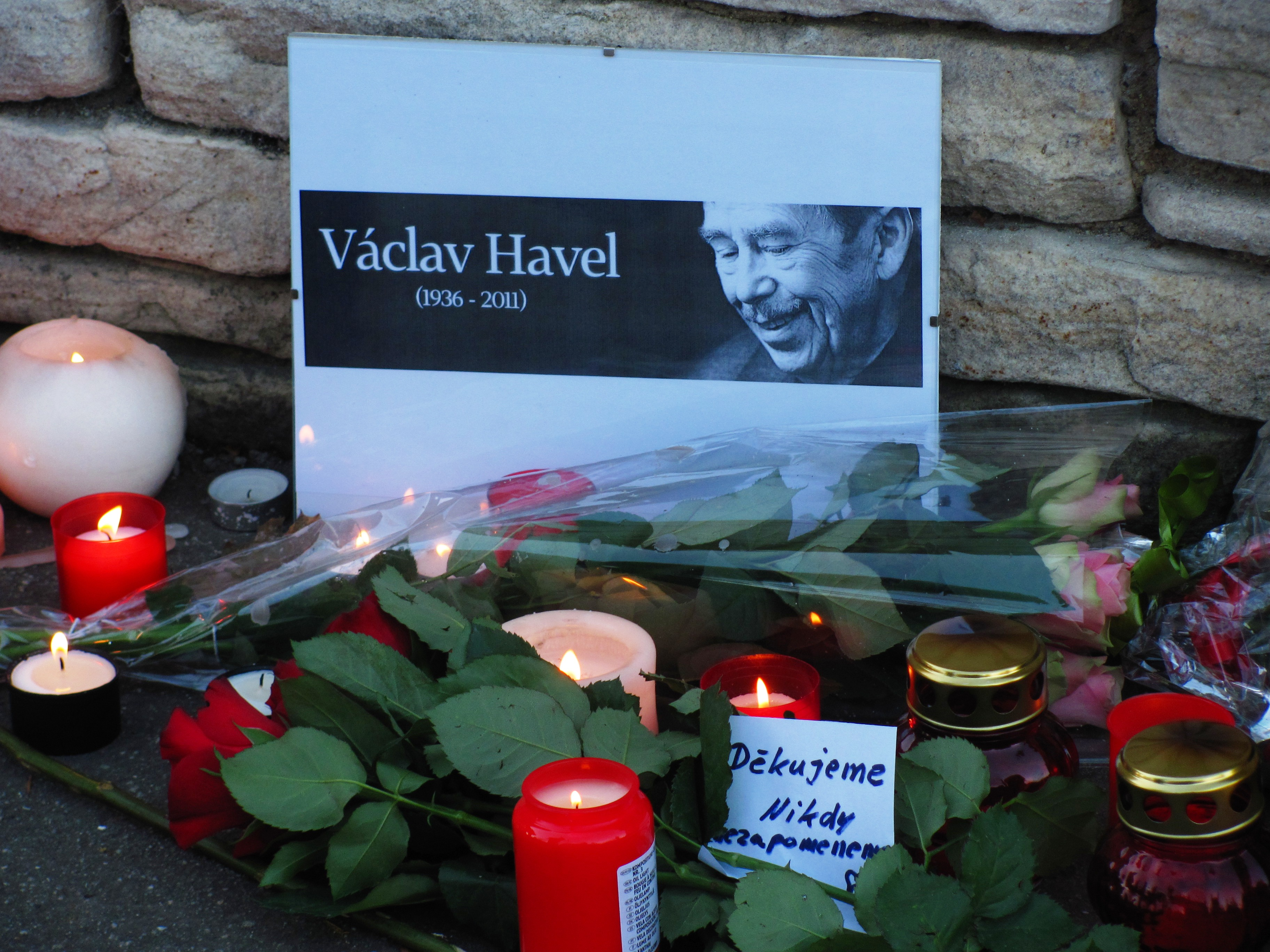 At Václav Havel Prague Residence (Dec.19th, 2011). Text: Václav Havel (1936–2011). Thank you. We never forget.